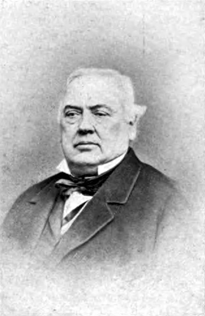 Portrait photograph of Philip Dorsheimer (1832-1888), United States politician